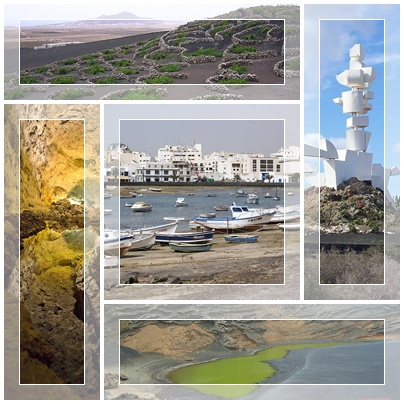 Green Lake at El Golfo, Lanzarote